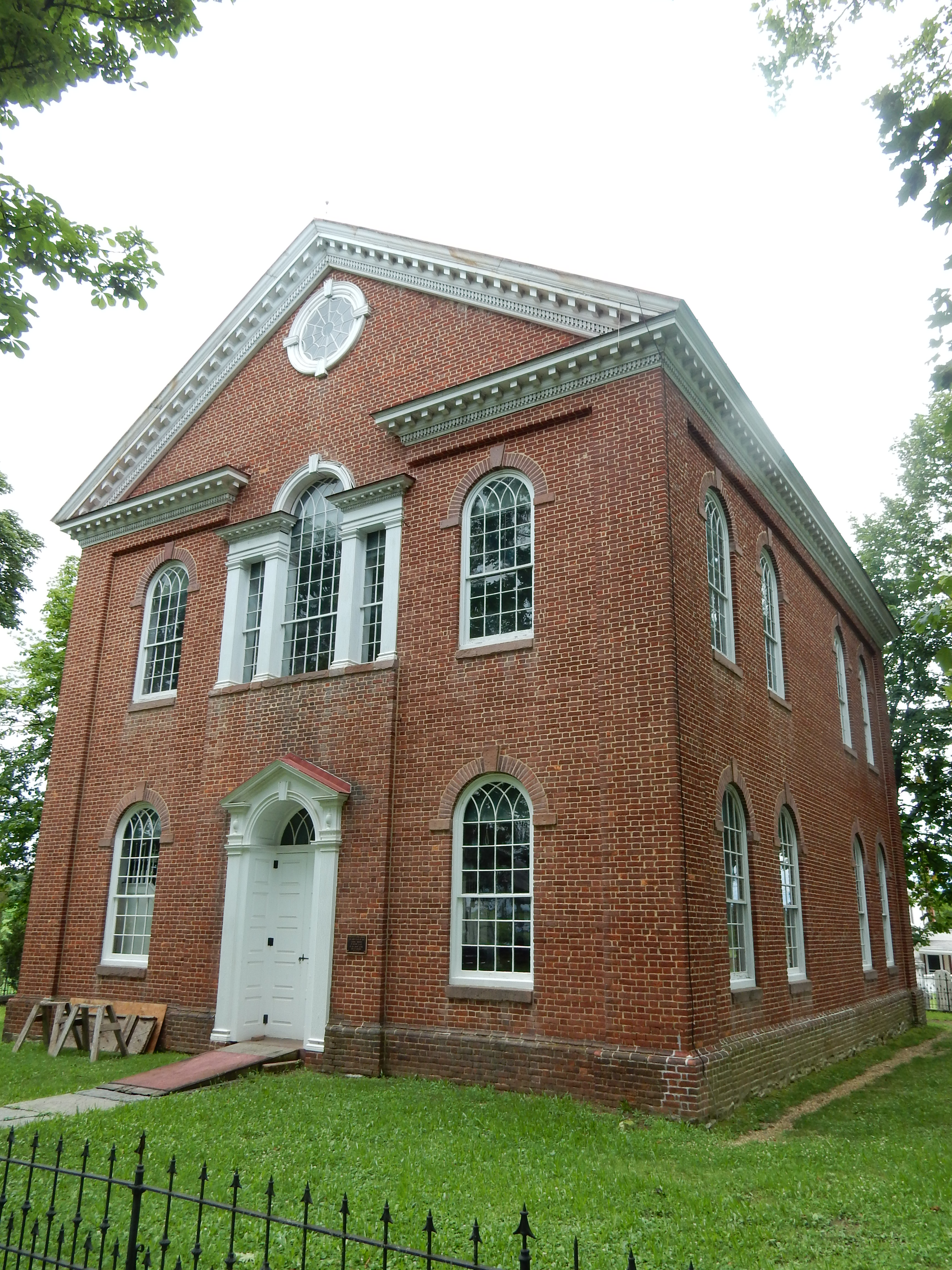 Belleman's Union Church is located in Mohrsville, Berks county, Pennsylvania. It was built in 1814 and added to the National Register of Historic Places in 1973. East side.